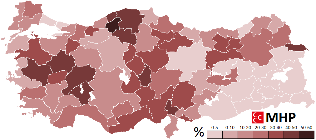 Results obtained by the MHP by province in the Turkish local elections of 2014.